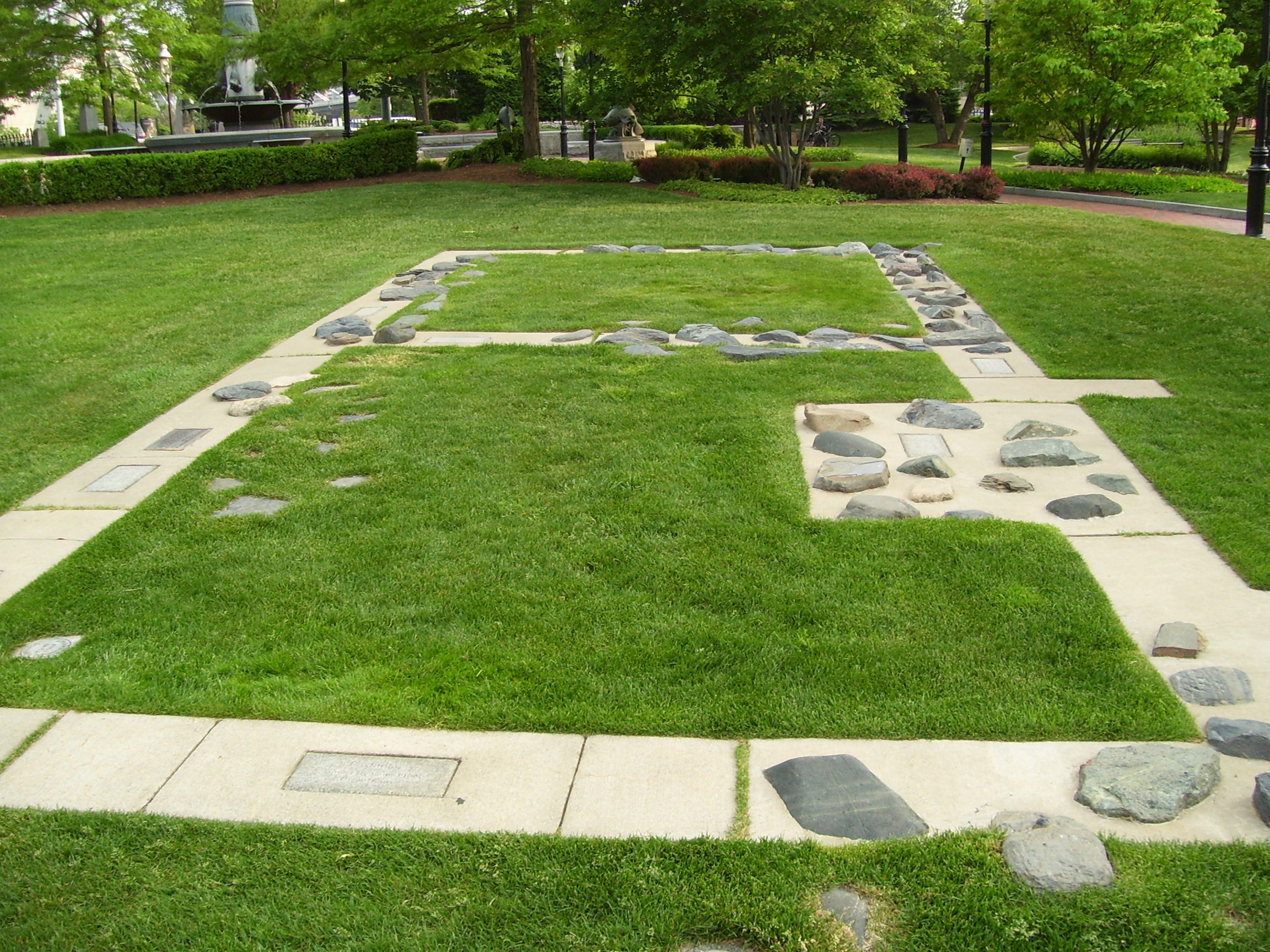 This is my 2008 photo of the John Winthrop Great House site in City Square Park in Charlestown, Massachusetts.